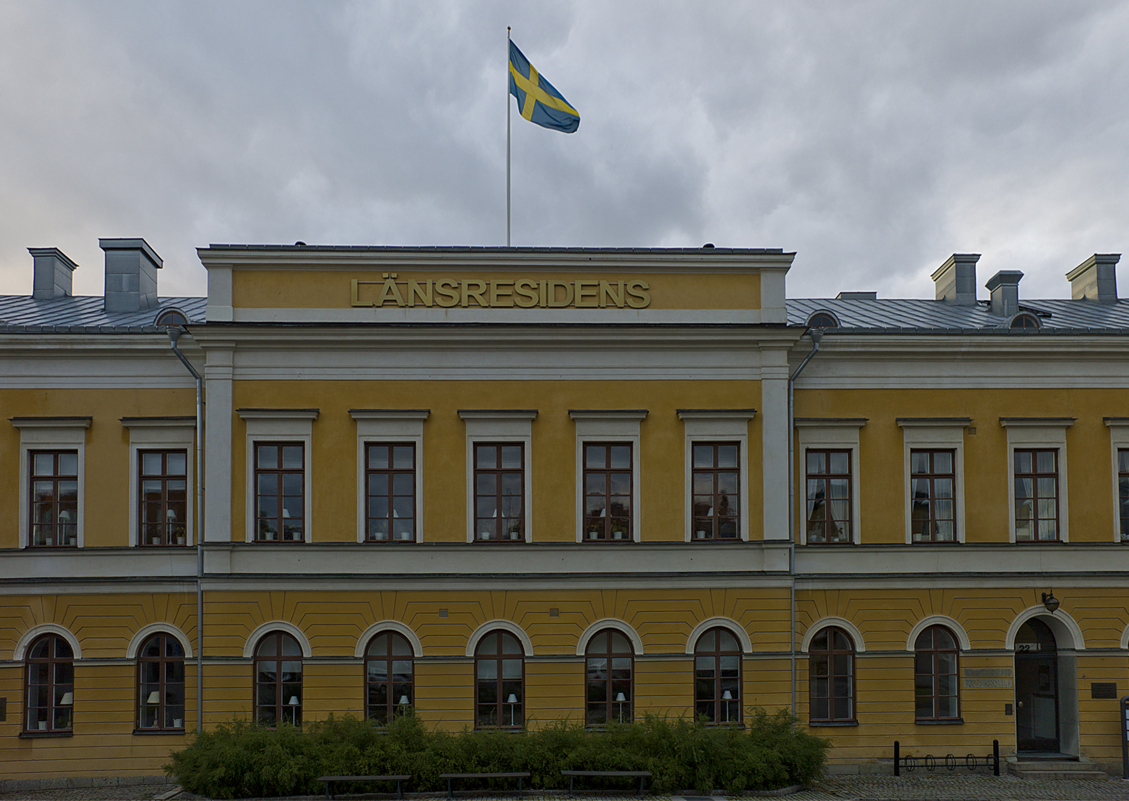 Östersund was founded in 1786, and became the seat of the county government in 1810. The county governor’s house was built in 1846-48.